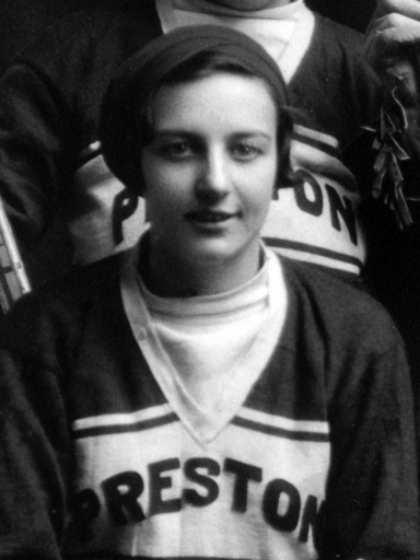 Hilda Ranscombe, cropped from the larger team photo.